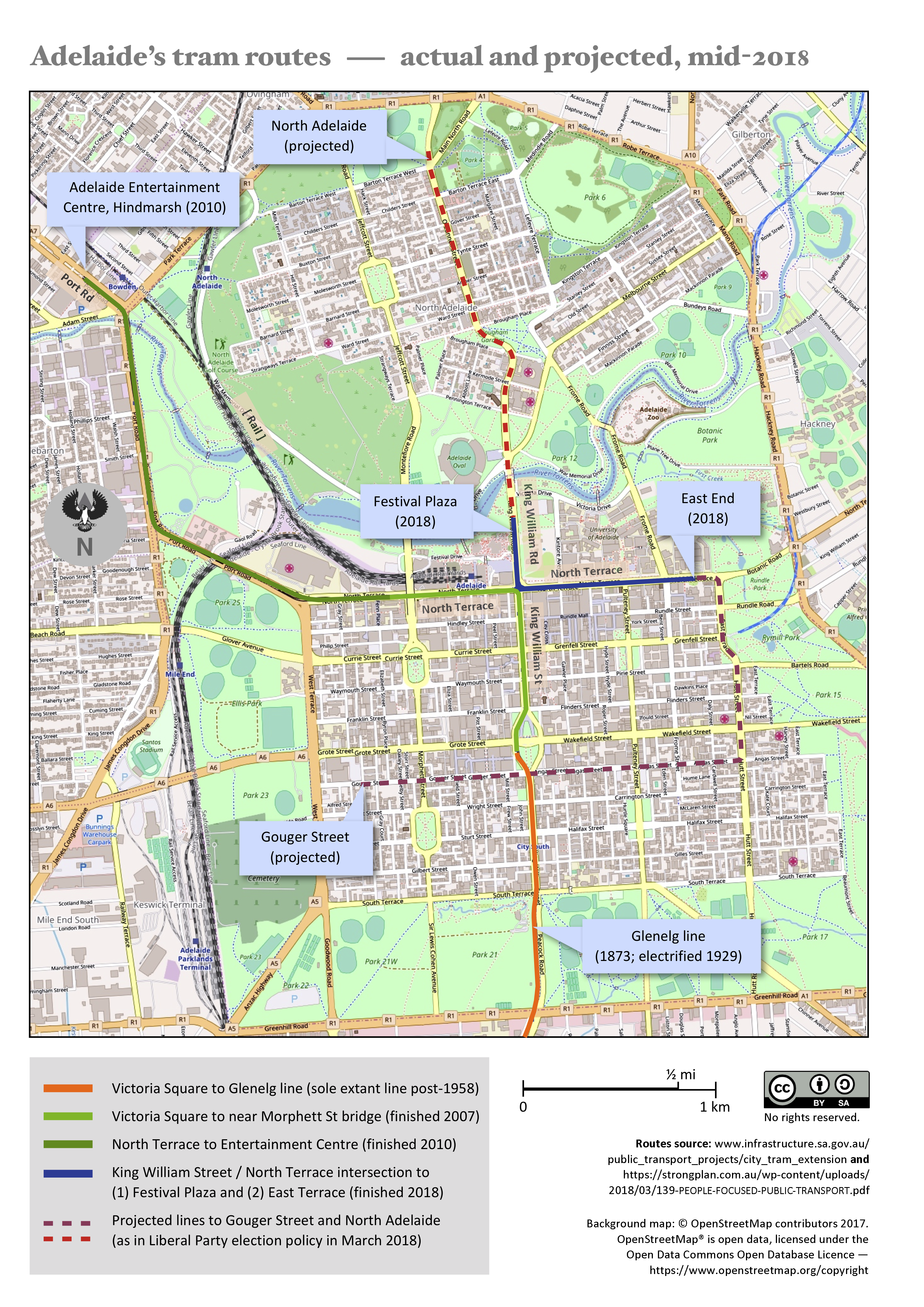 An OpenStreetMap map of Adelaide, South Australia, overlaid with routes of existing and projected tram lines in 2018 after the March state election.